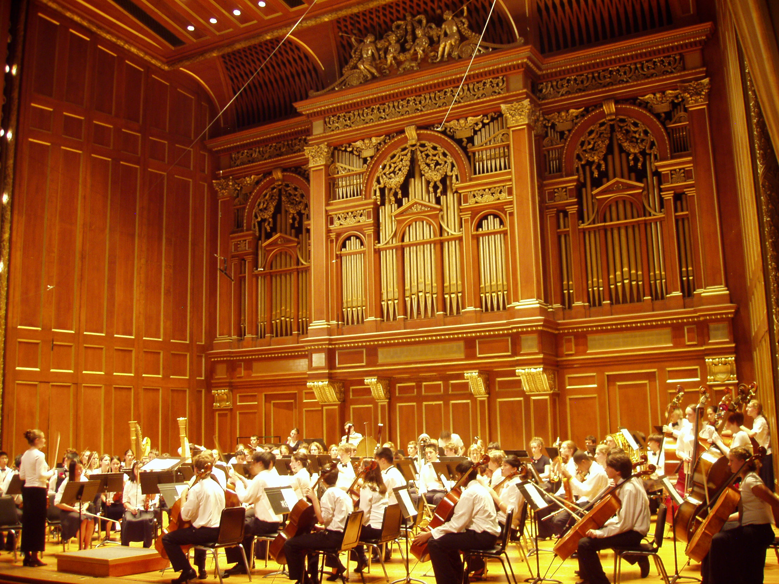 The Greater Boston Youth Symphony Orchestra Repertory Orchestra performing in Jordan Hall, New England Conservatory of Music, Boston, Massachusetts. Photograph taken by me, June 2005.